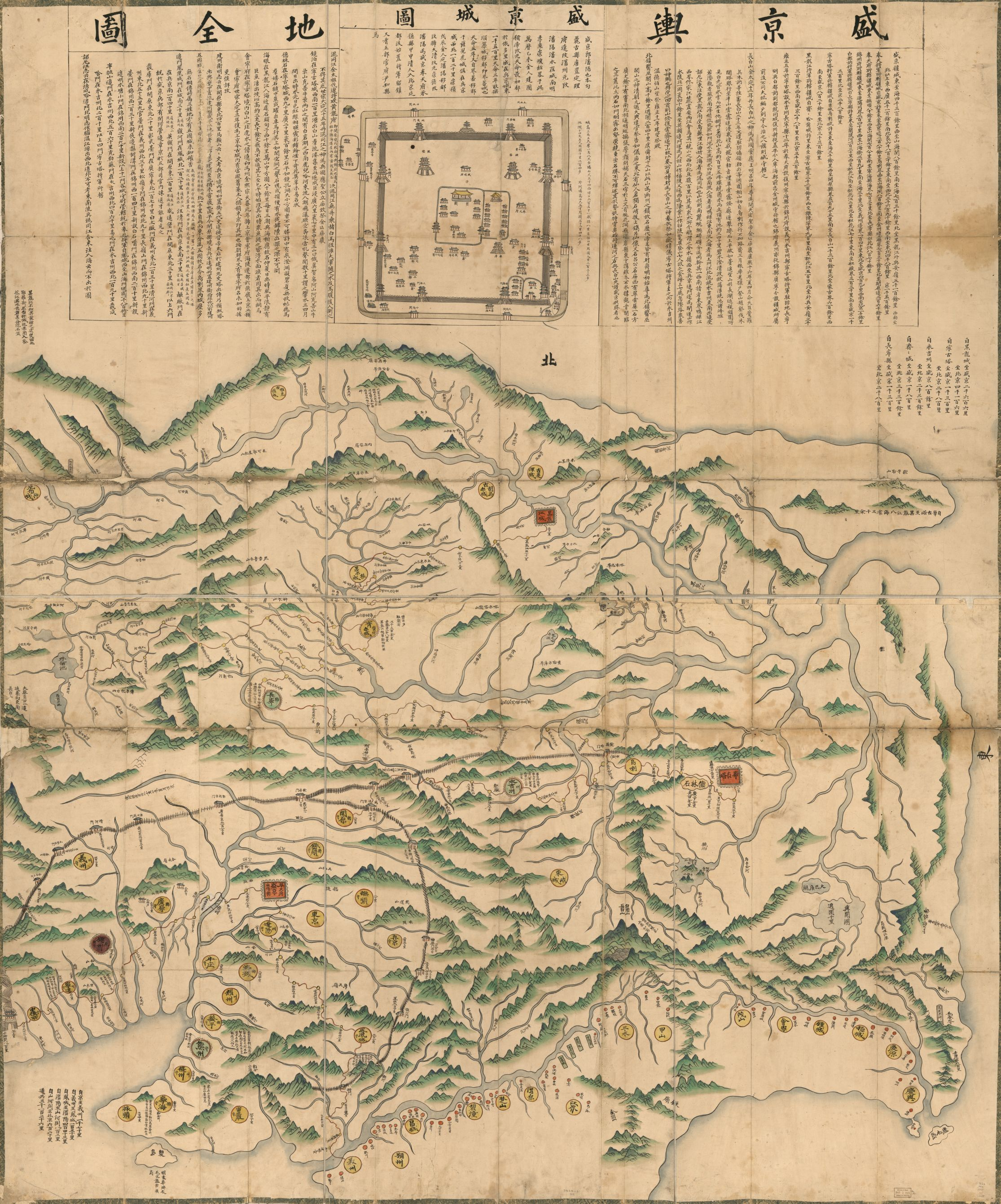 Fengtian (Liaoning) Map at 1734